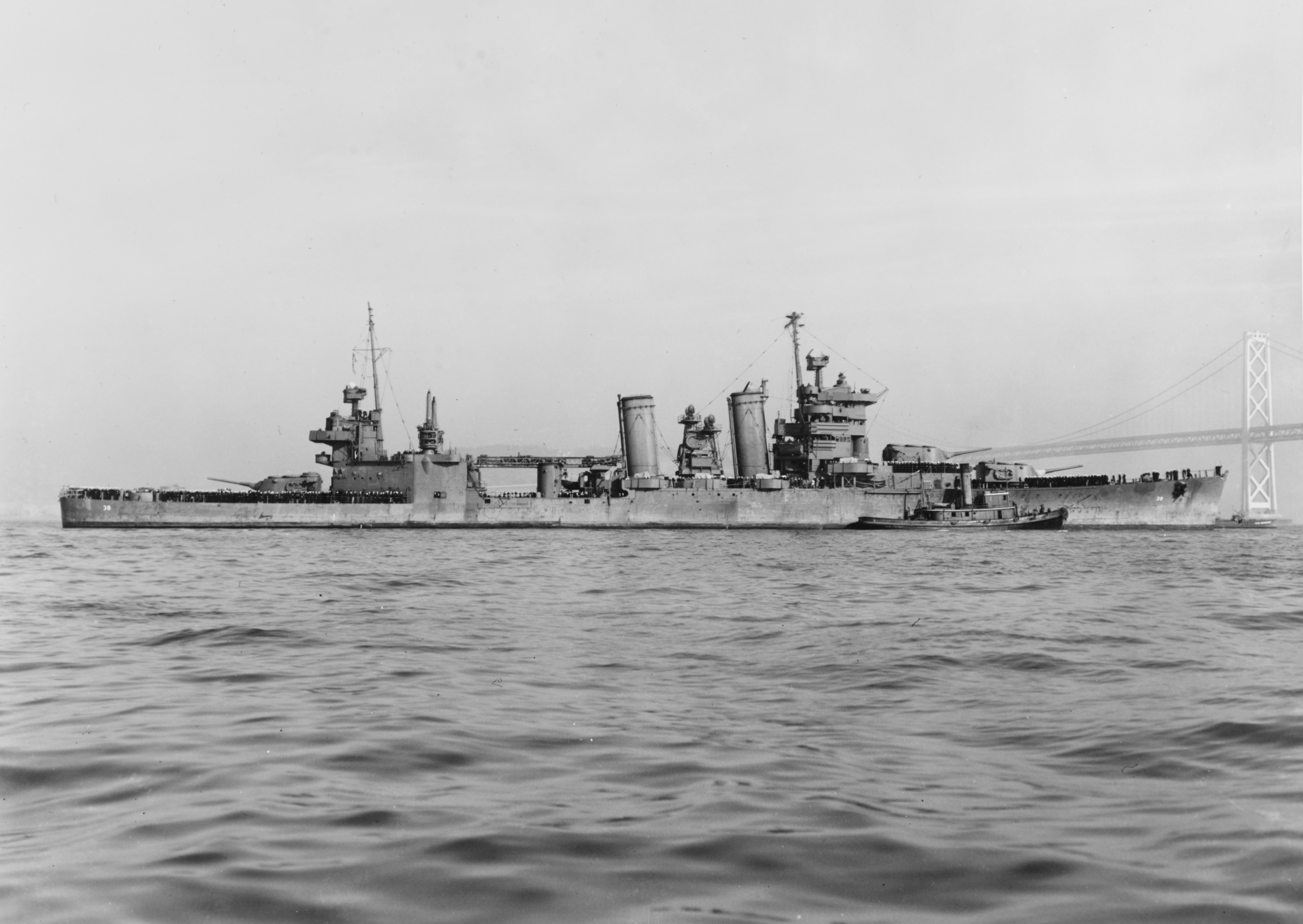 The U.S. Navy heavy cruiser USS San Francisco (CA-38) entering San Francisco Bay, California (USA), on 11 December 1942, after being damaged in action during the Naval Battle of Guadalcanal on 13 November 1942.